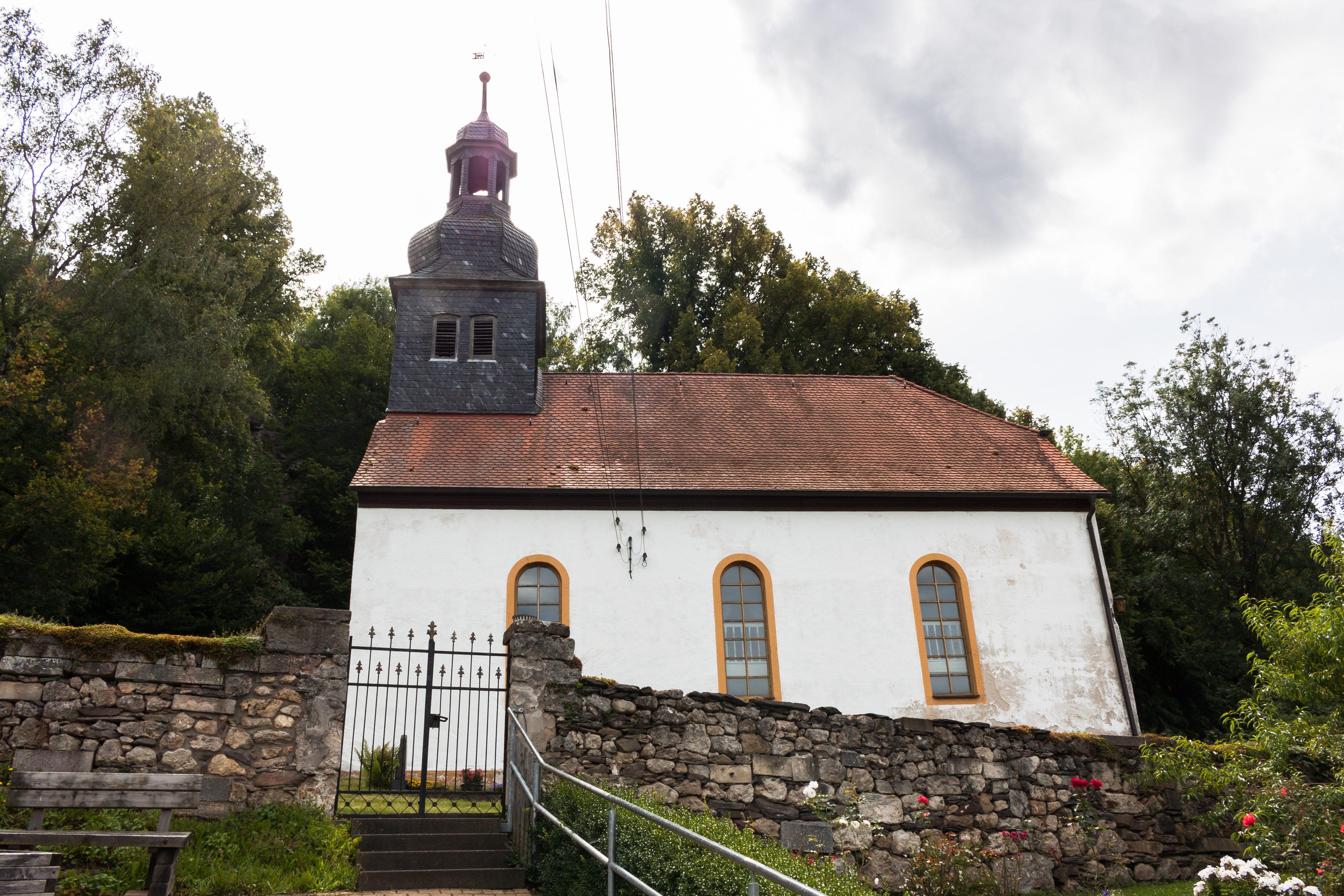 The church of Döbritz, Thuringia, Germany.